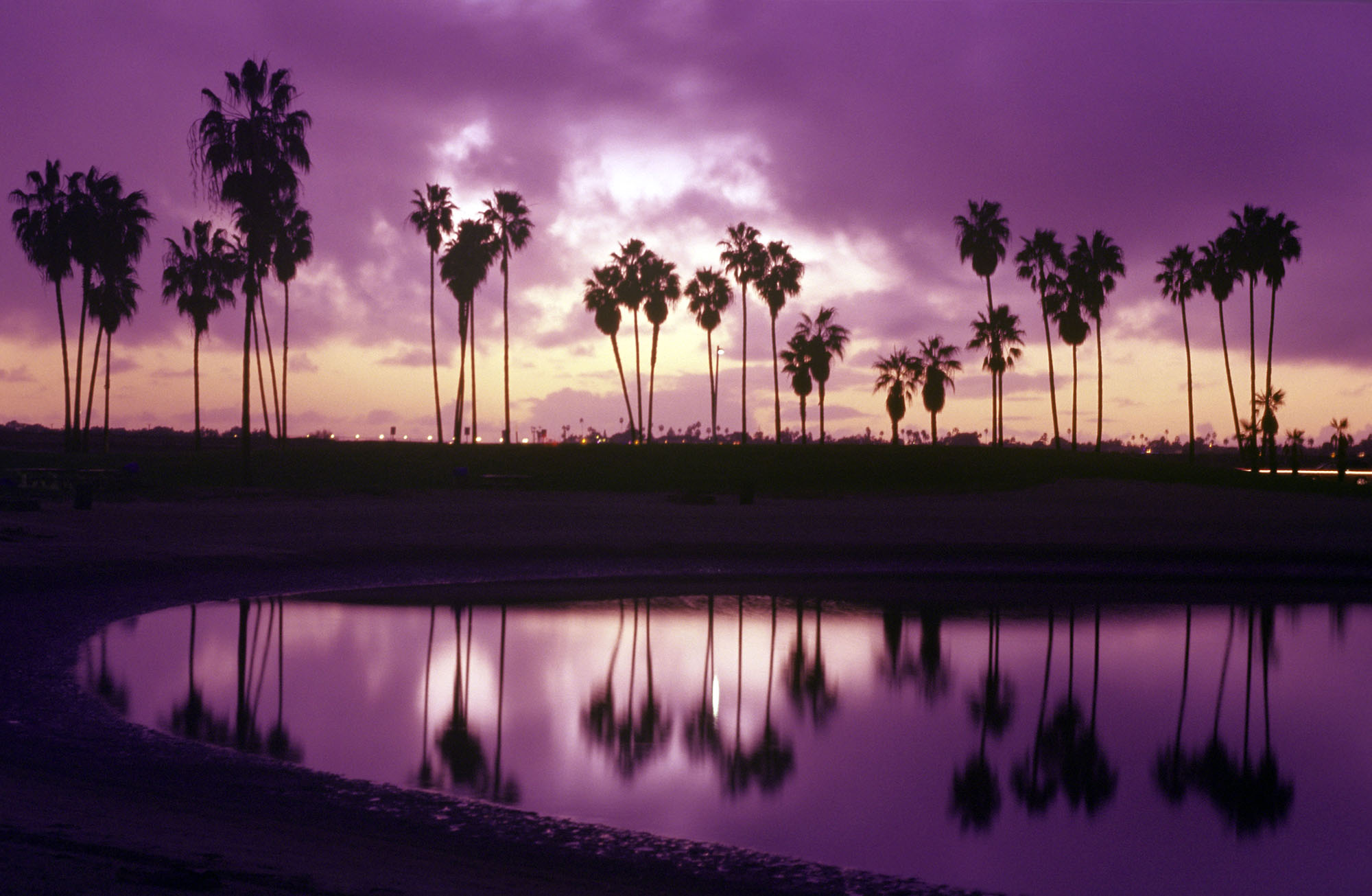 Mission Bay sunset, San Diego, CA.